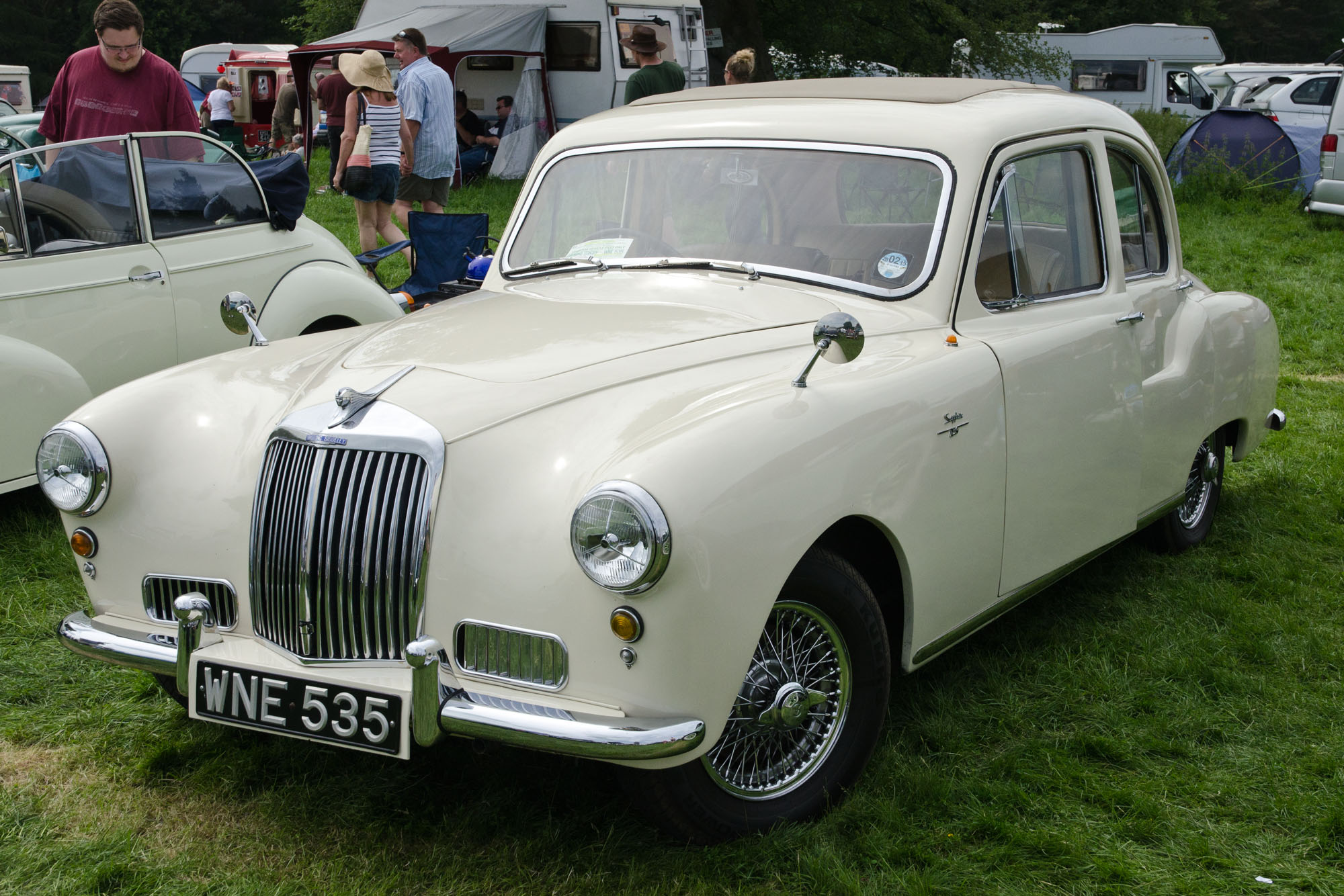 Tatton Park Classic Car Show 01/06/2014